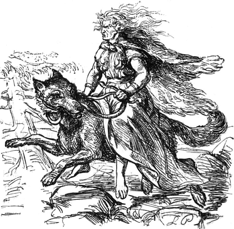 Hyrrokin rides to Baldr's funeral on her wolf